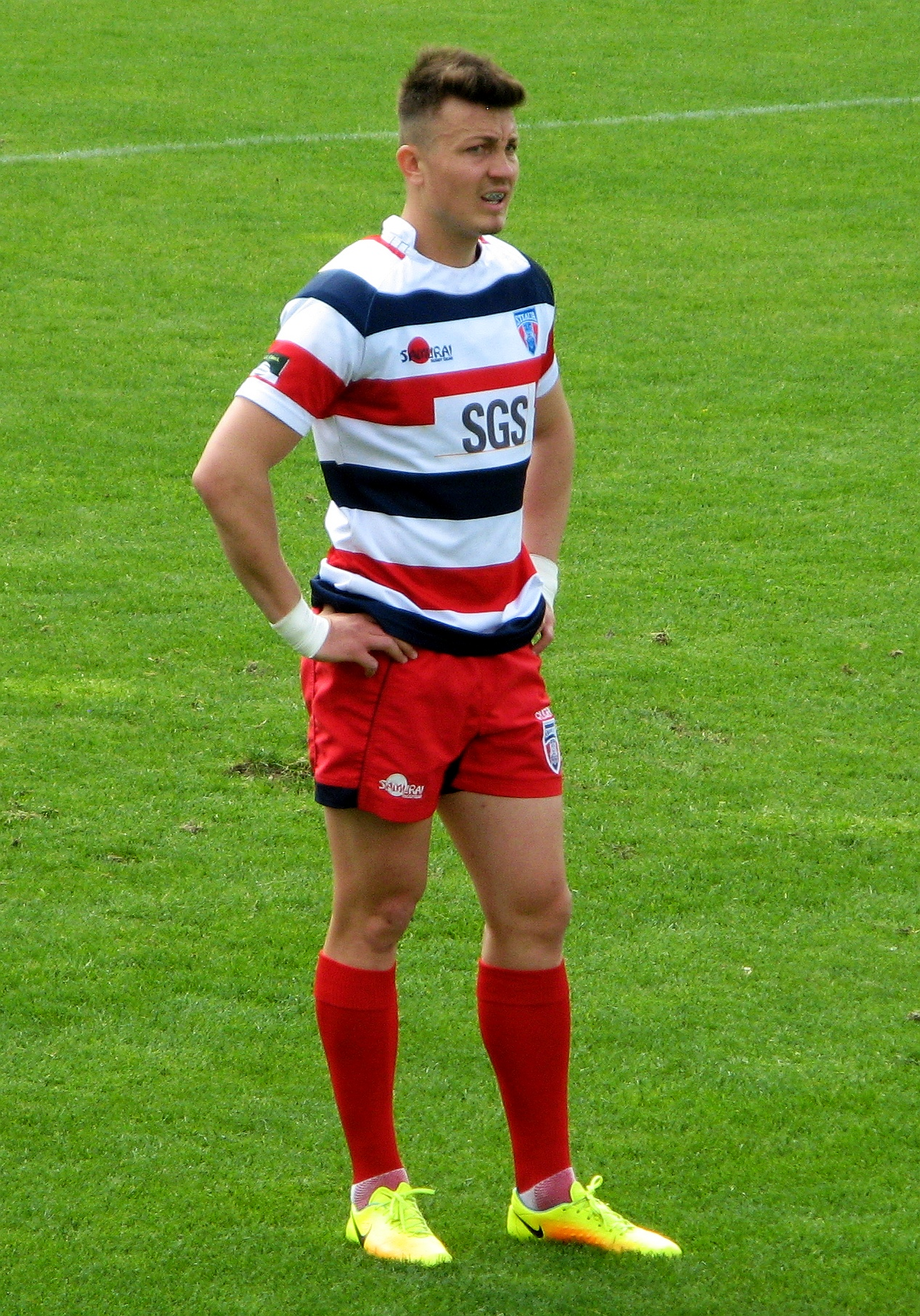 Sabin Strătilă, from CSA Steaua București rugby club seen in a match against Timișoara Saracens in Romanian Rugby SuperLiga in April 2017